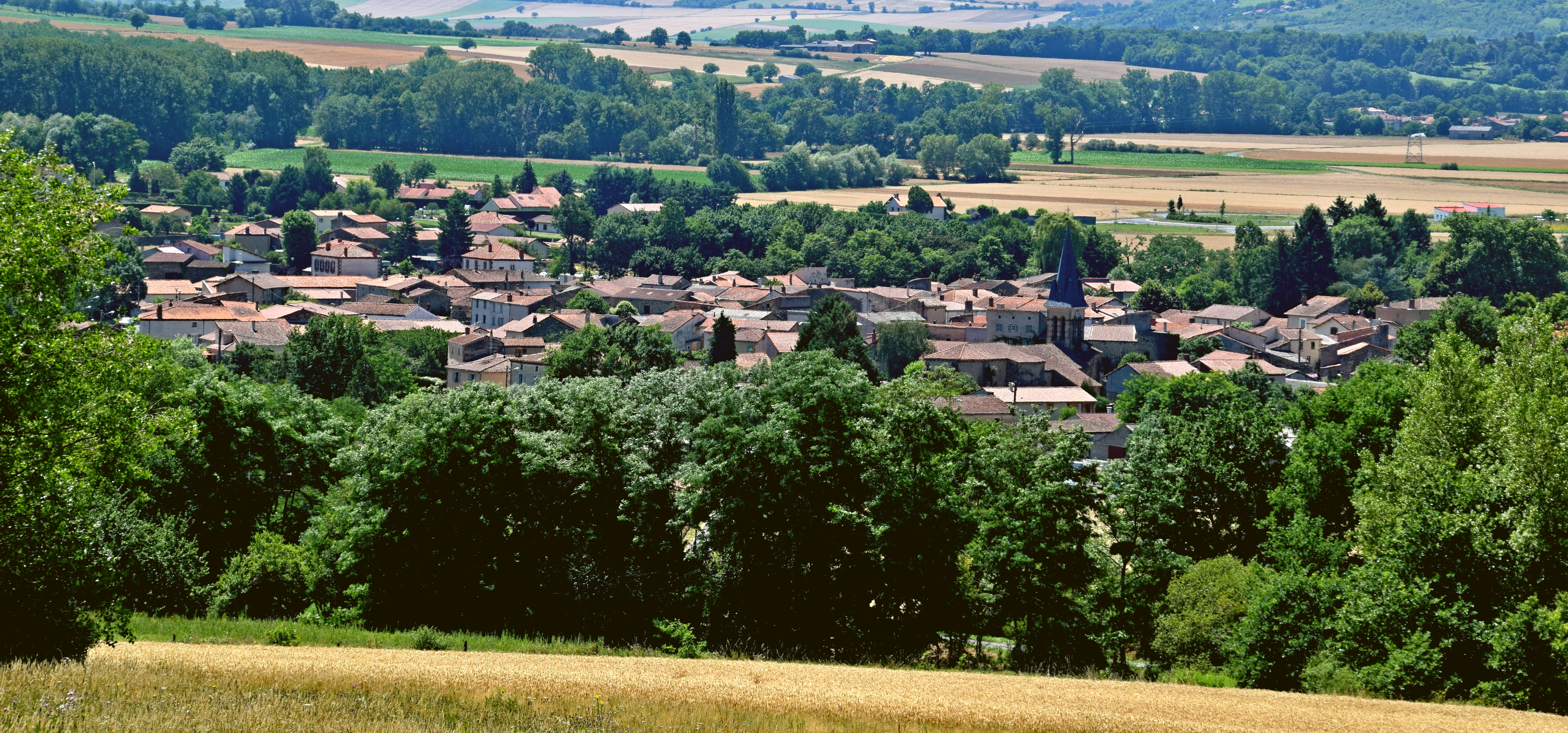 View of Saint-Rémy-de-Chargnat from Usson, departament of Puy-de-Dôme, France